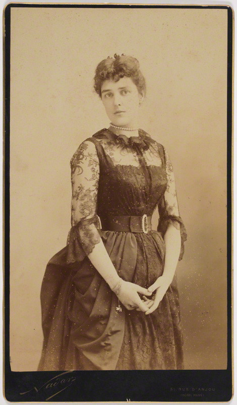 by Nadar (Gaspard FÈlix Tournachon), albumen panel card